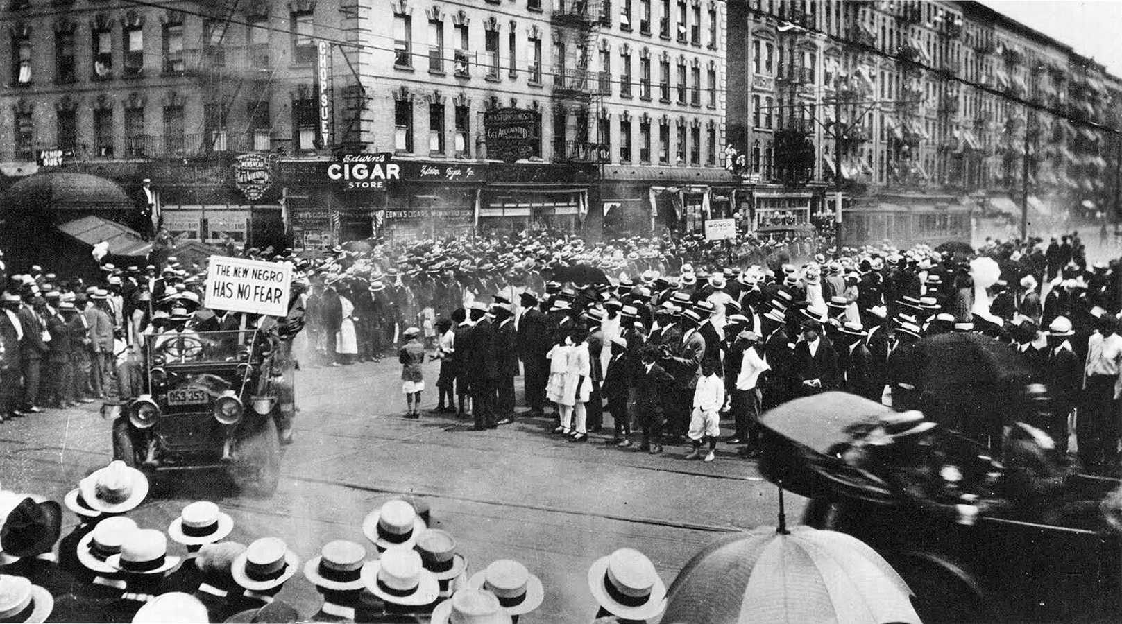 UNIA parade in Harlem, 1920. NYPL rights statement on image